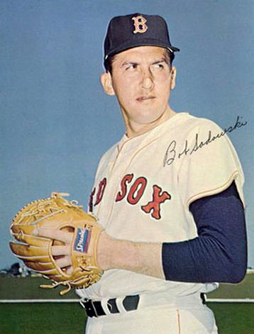 Professional baseball player Bob Sadowski